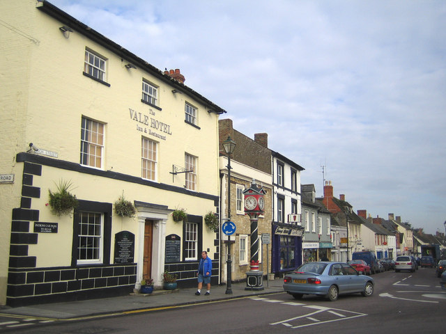 Cricklade: High Street This view was taken looking north along the High Street at its junction with the B4040 Calcutt Street. The Vale Hotel was originally the White Horse Inn, and there is a small but fine clock tower at the junction.